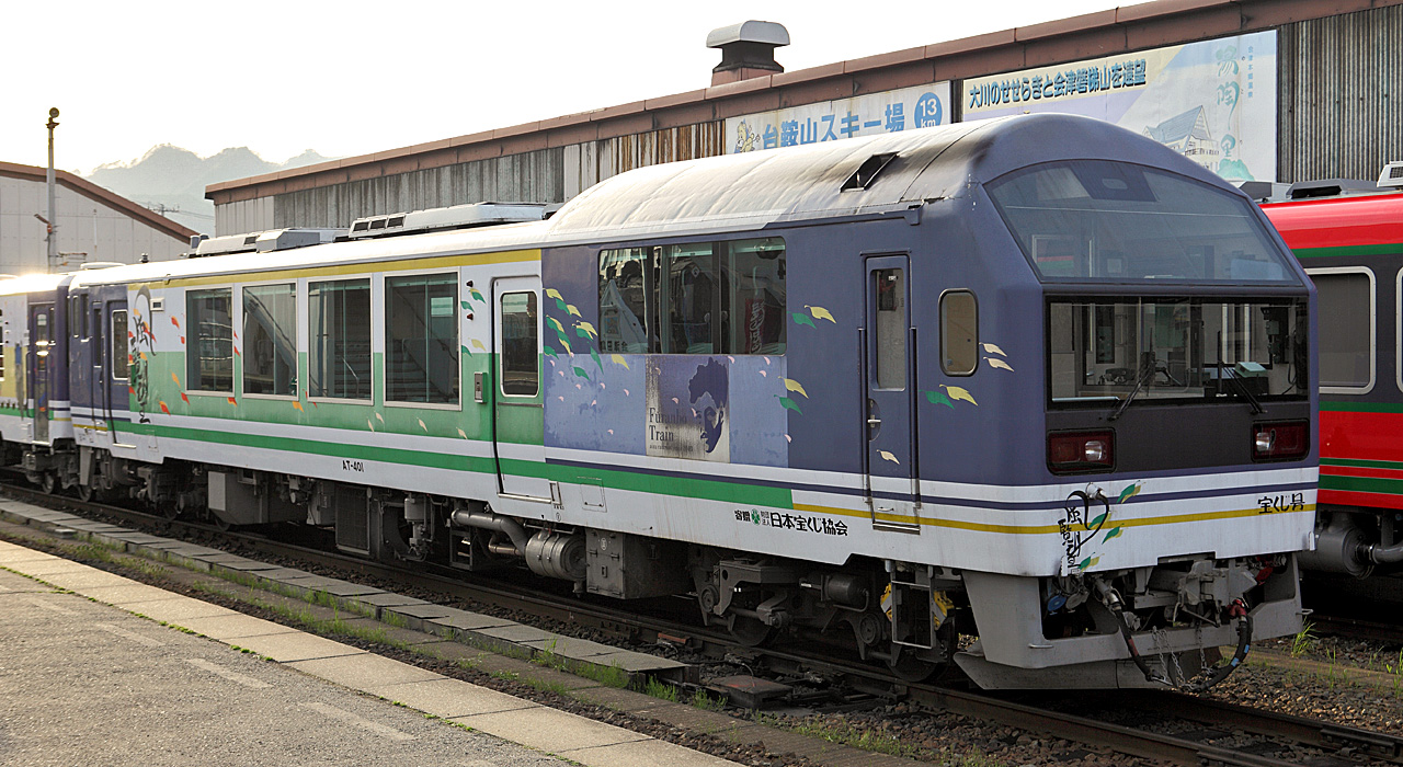 Aizu Railway Type AT-400 DMU